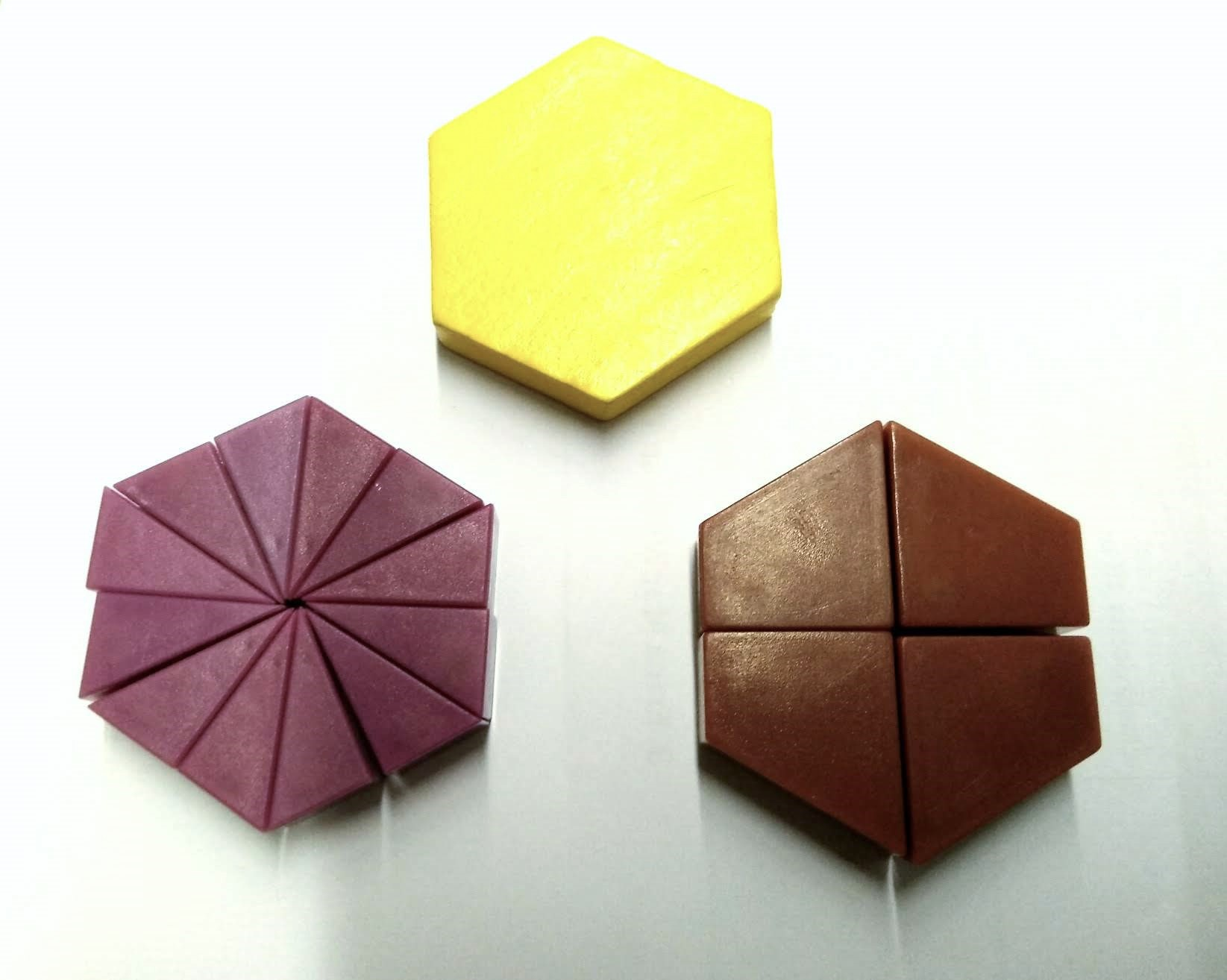 The purple triangle and brown quadrilateral are a pair of fraction pattern blocks that are commercially available.